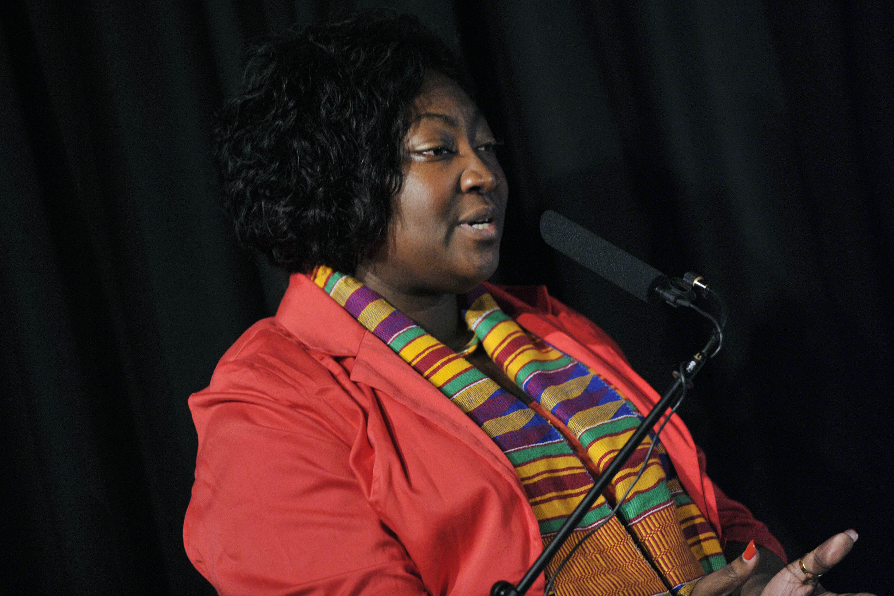 Phyll Opoku-Gyimah at the Global Gay Rights event at the Southbank Centre in London on 9 March 2014